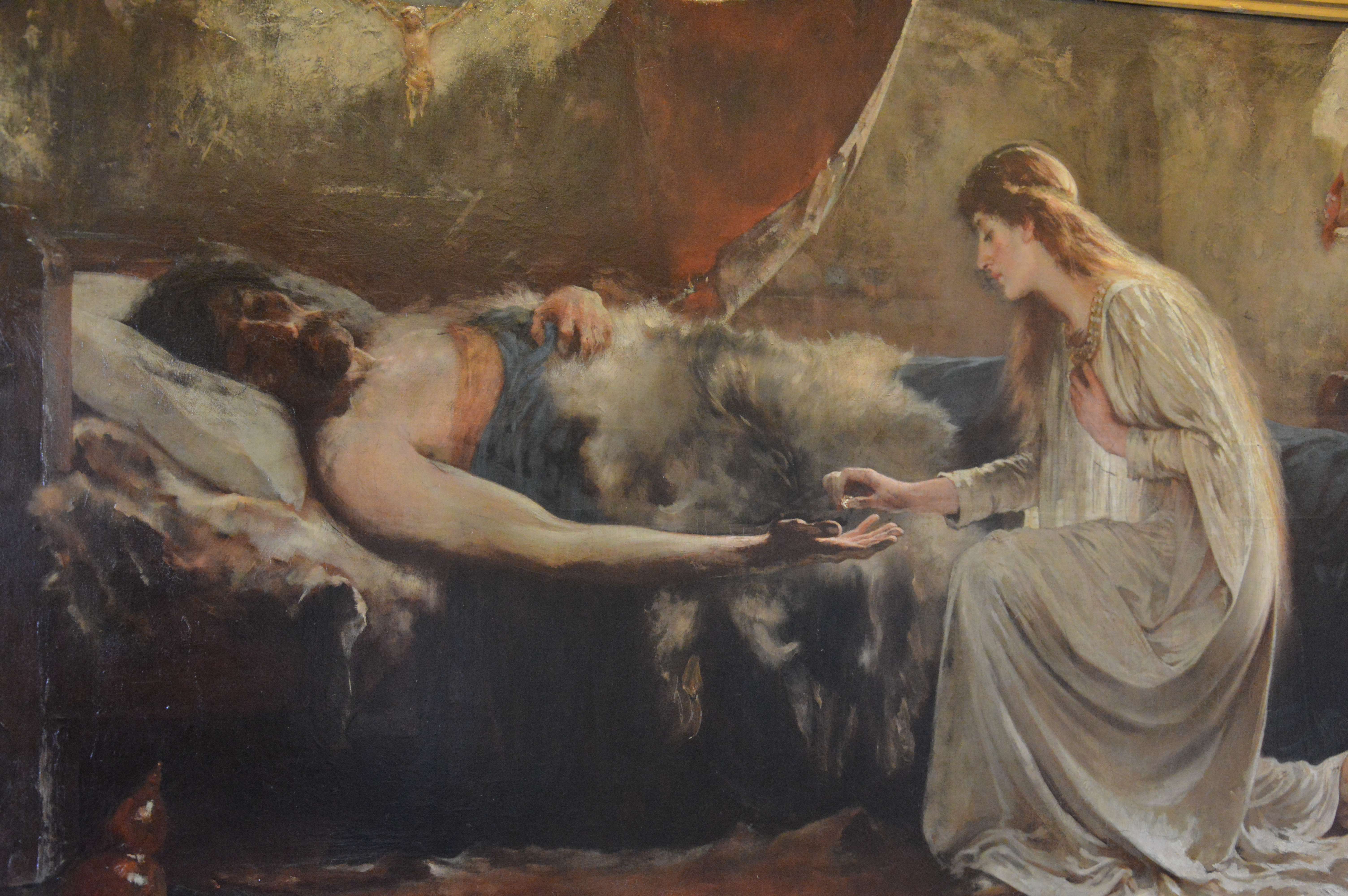 Sidney Paget's painting "Lancillotto ed Elena" (Sir Lancelot and Elaine of Astolat) at the Galleria d'Arte Moderna in Florence, Italy. Photo taken slightly at an angle.